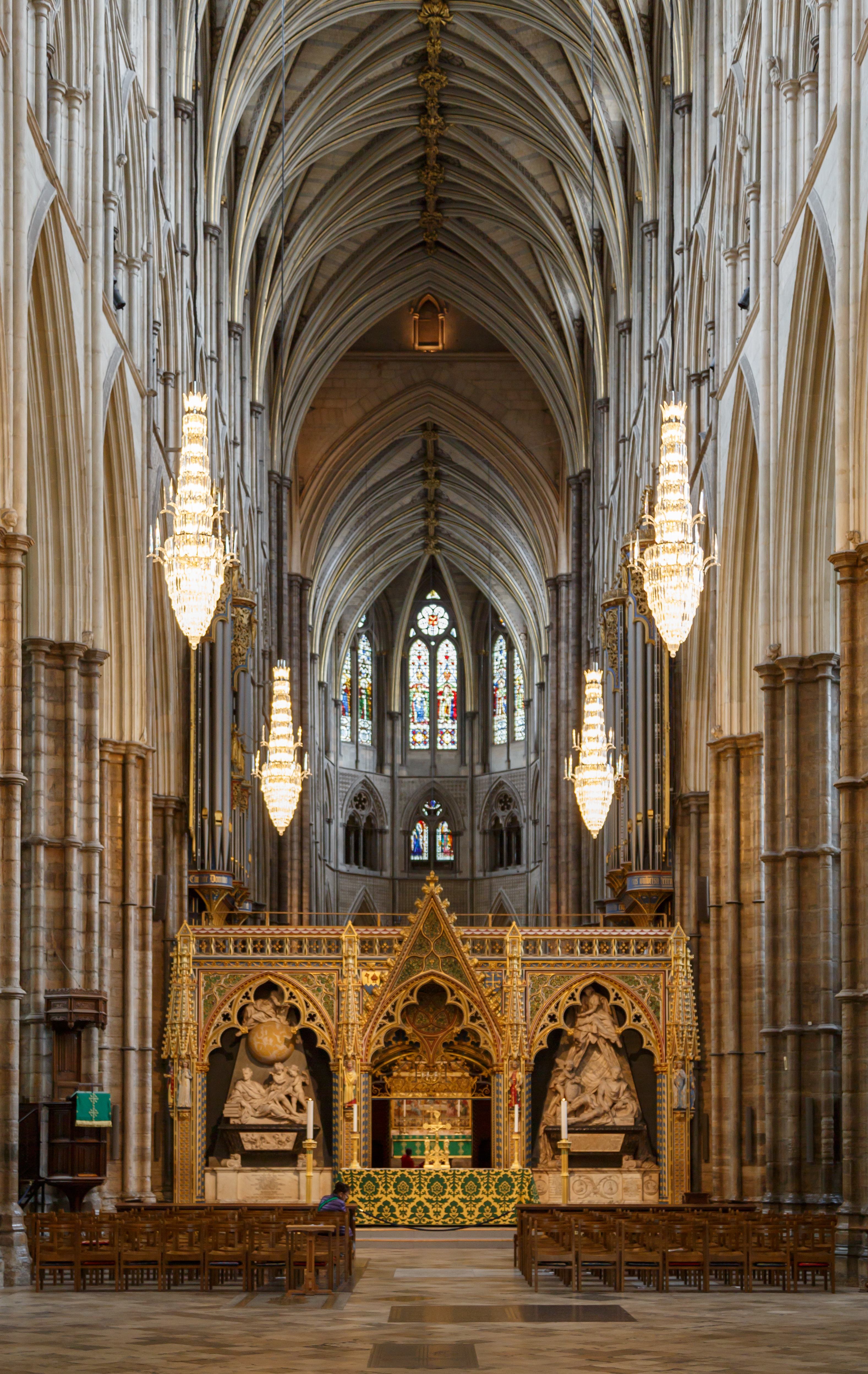 London, UK: Interior of Westminster Abbey